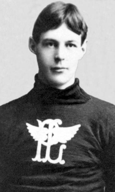 Hod Stuart, ice hockey player while with the Portage Lakes Hockey Club, circa 1903–1904.